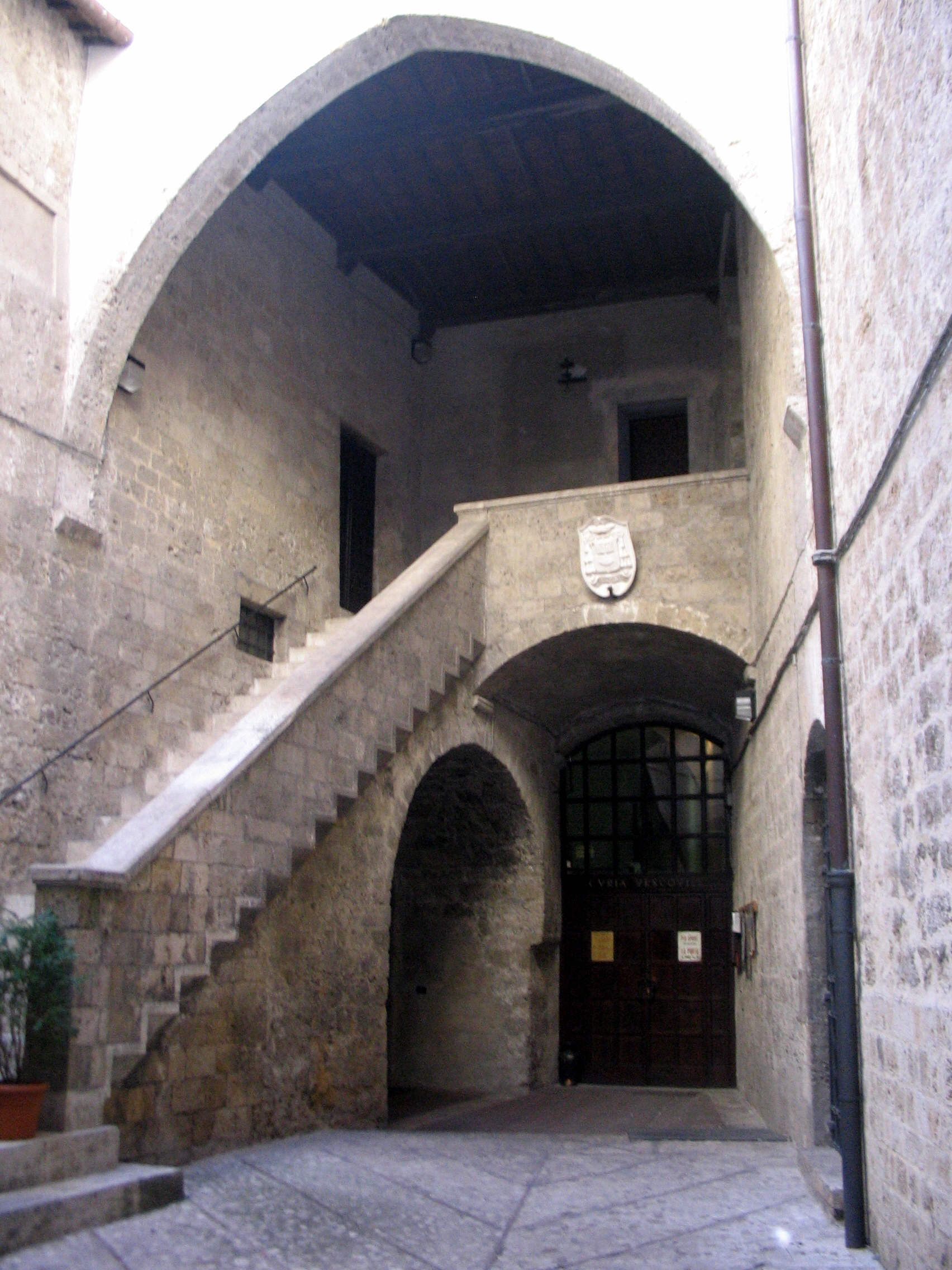 Palazzo Vescovile - Court - Rieti, Lazio, Italia